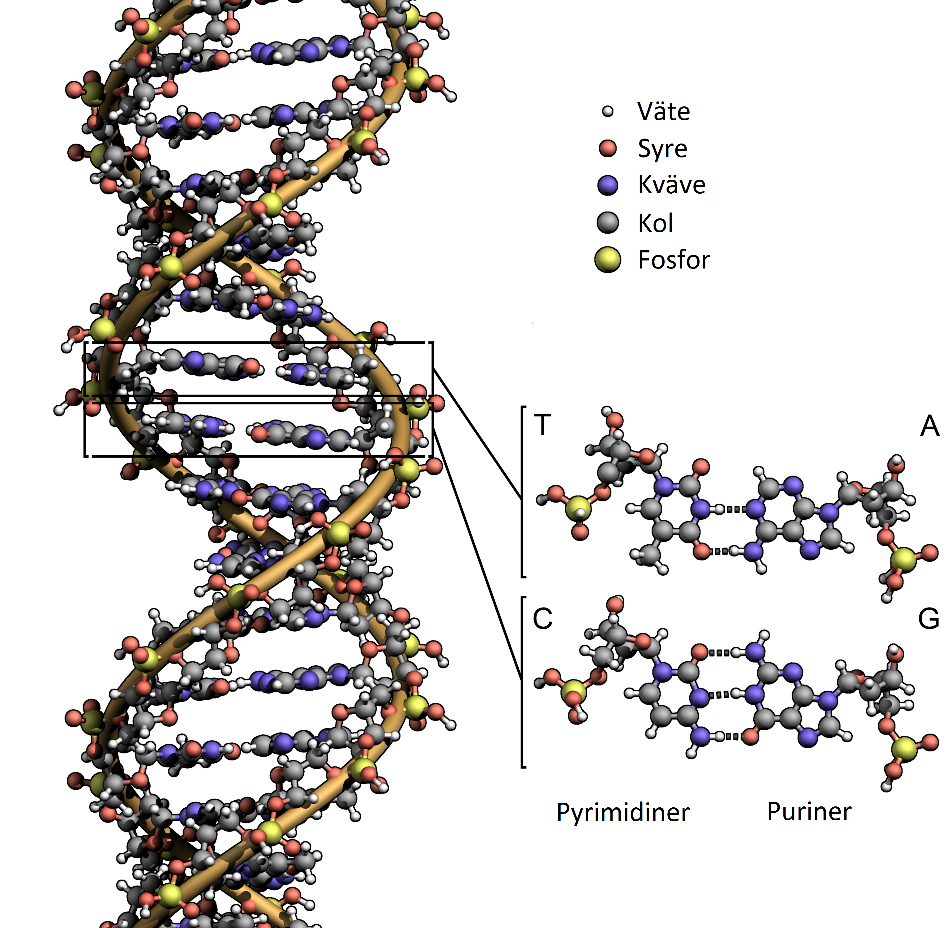 The structure of DNA showing with detail showing the structure of the four bases, adenine, cytosine, guanine and thymine, and the location of the major and minor groove.